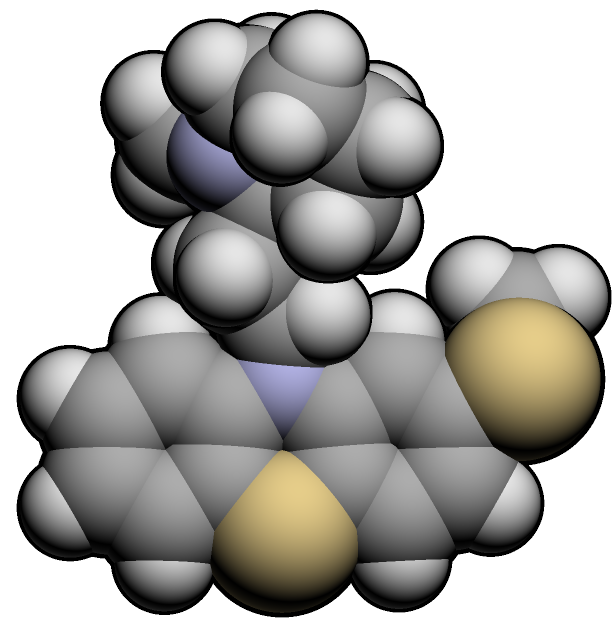 3d molecular spacefill of Thioridazine